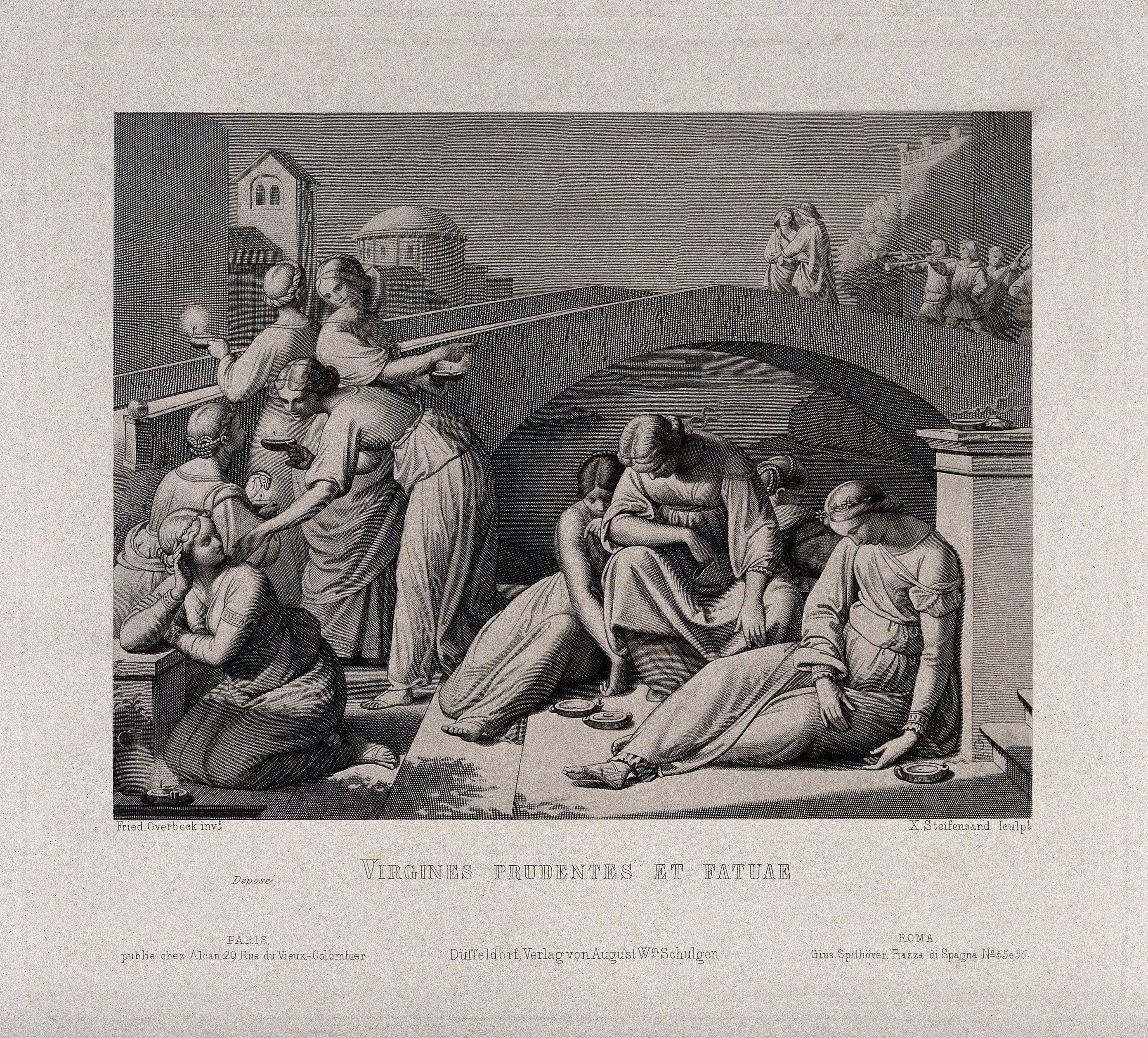 Two groups of bridesmaids wait by a bridge: one with candles, the other dejectedly staring at the ground; representing the biblical parable of the wise and foolish virgins. Etching by X. Steifensand after J.F. Overbeck, 1844. Iconographic Collections Keywords: Jesus Christ; Johann Friedrich Overbeck; Xaver Steifensand